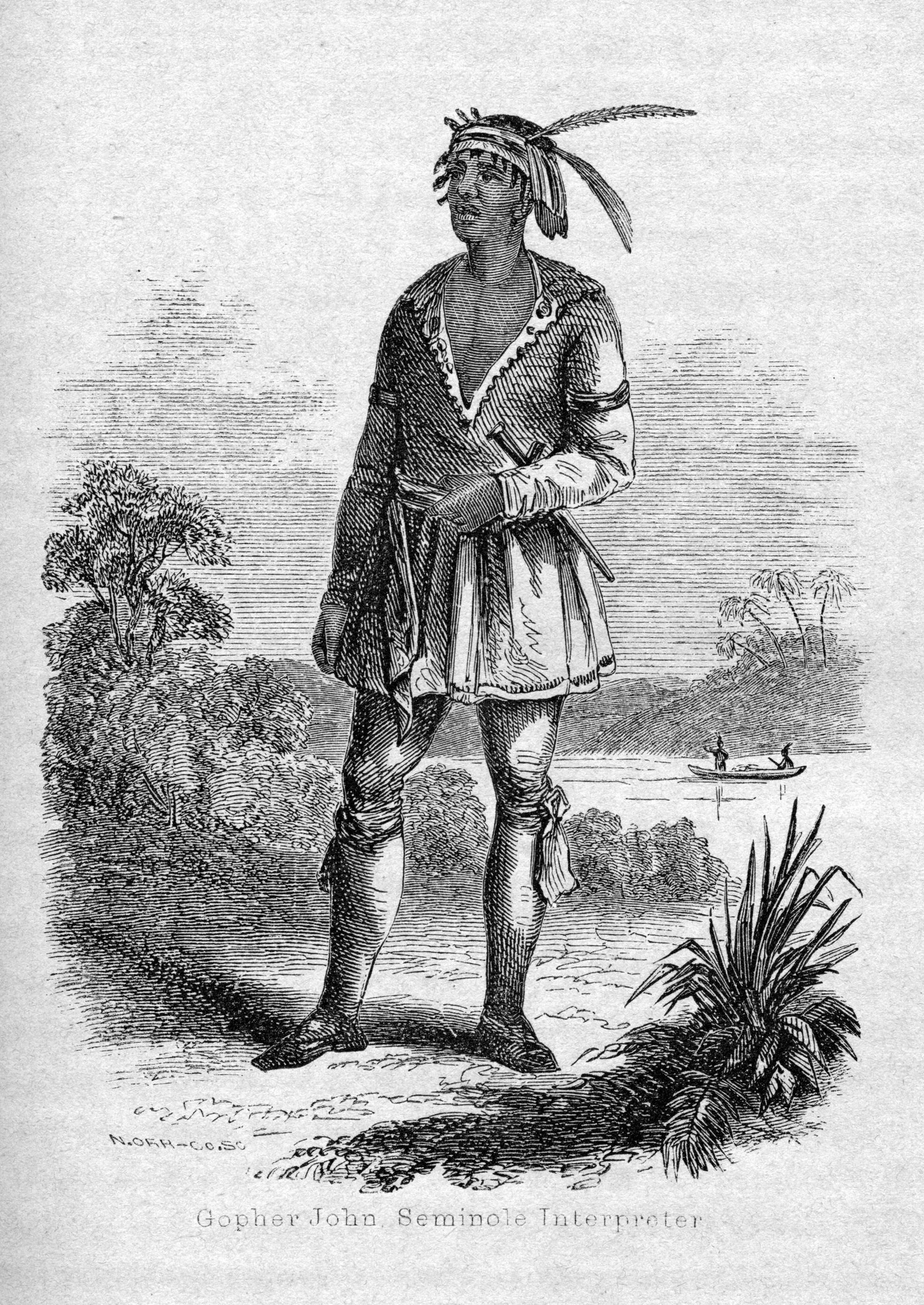 John Horse, aka Gopher John, engraving published in Joshua Reed Giddings, The exiles of Florida, or, The crimes committed by our government against the Maroons : who fled from South Carolina and other slave states, seeking protection under Spanish law, Columbus, Ohio : Follett, Foster and Co., 1858. OCLC 3529923